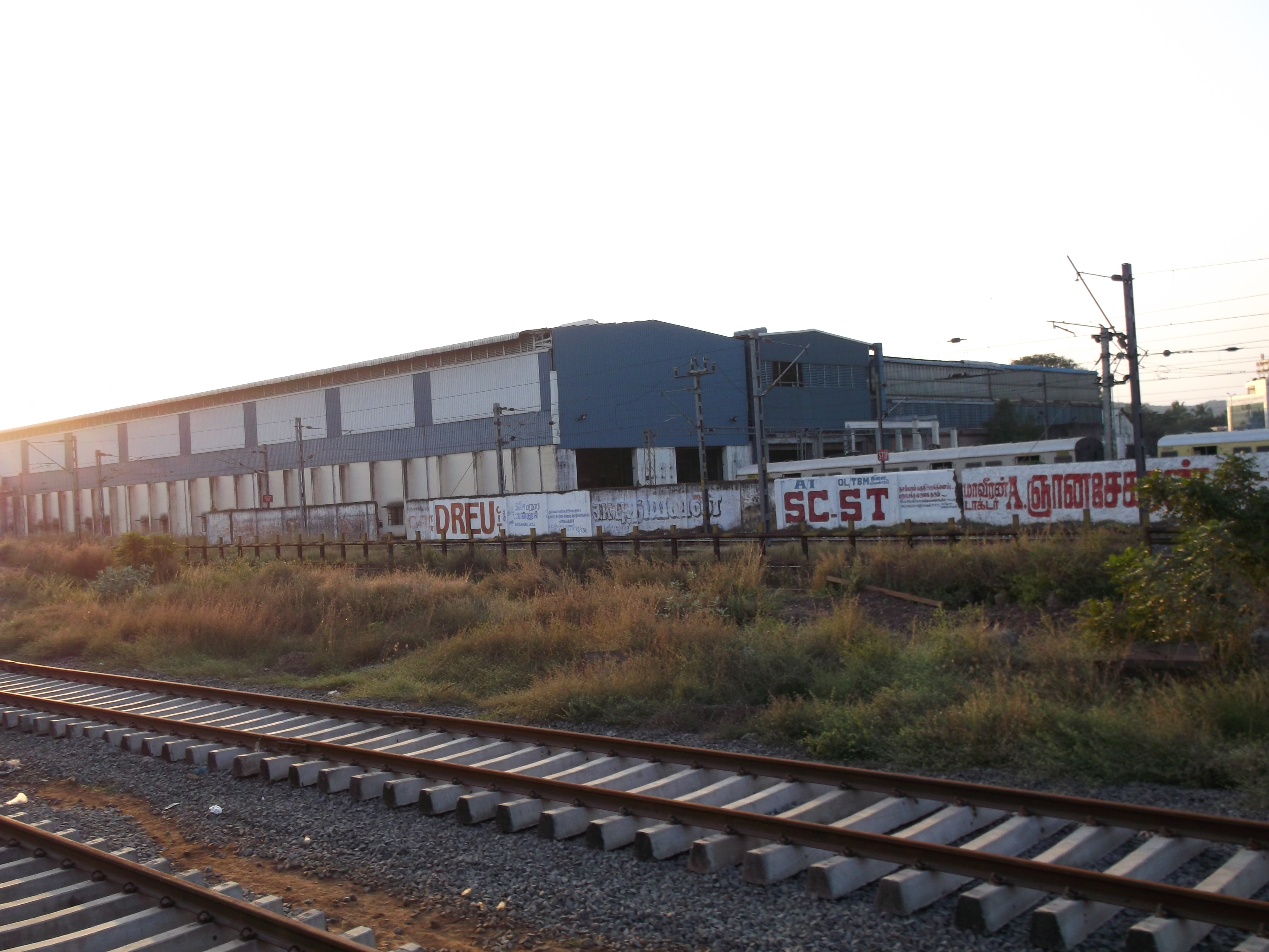 Tambaram railway station, EMU car shed, taken on 27-Jan-2013 at 6:00 pm.